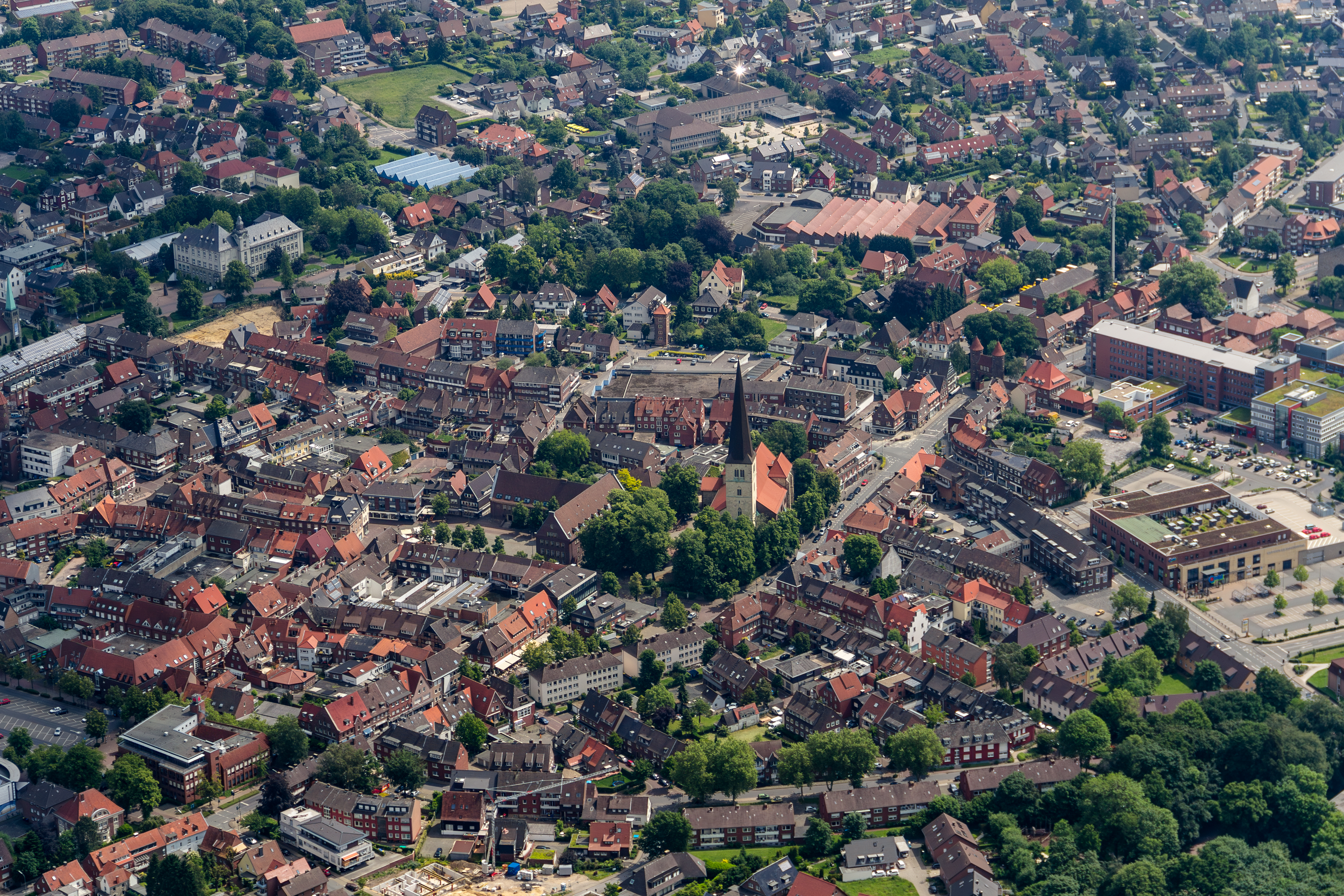 Dülmen, North Rhine-Westphalia, Germany This image shows a heritage building in Germany, located in the North Rhine-Westphalian city Dülmen (no. 1). This image shows a heritage building in Germany, located in the North Rhine-Westphalian city Dülmen (no. 15). This image shows a heritage building in Germany, located in the North Rhine-Westphalian city Dülmen (no. 126).